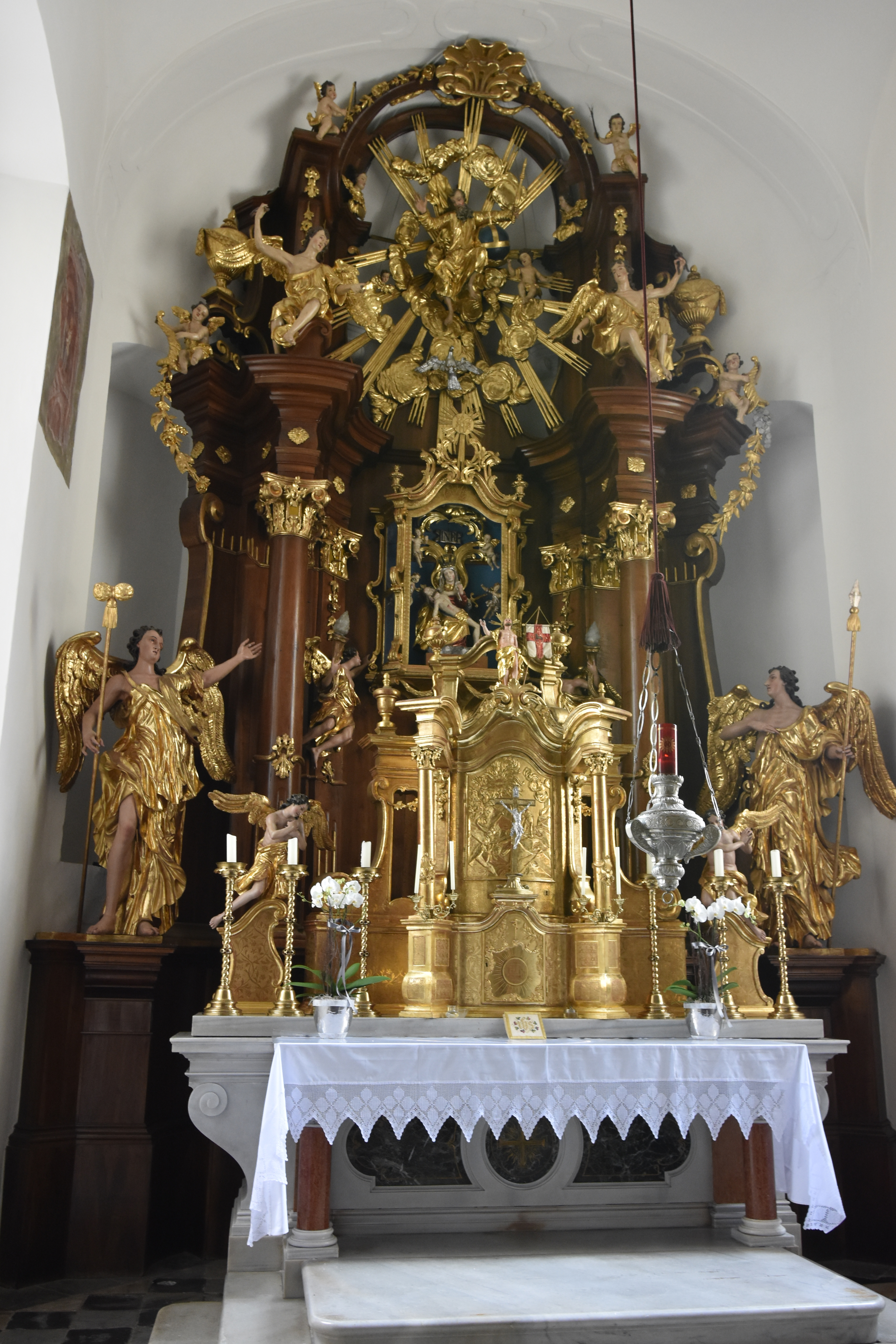 Church Eibiswald